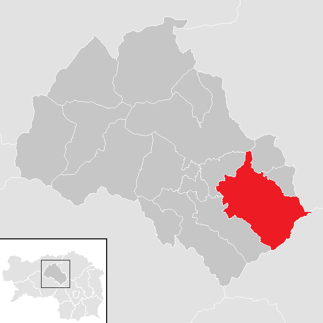 District Leoben